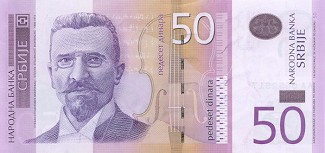 Description: 50 Serbian dinars (RSD) National Bank of Serbia (2006) issue Source: From the site of the National bank of Serbia [1]